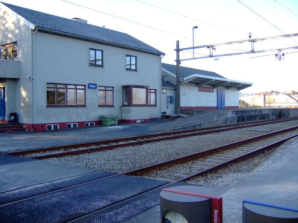 Klepp train station, Rogaland Norway